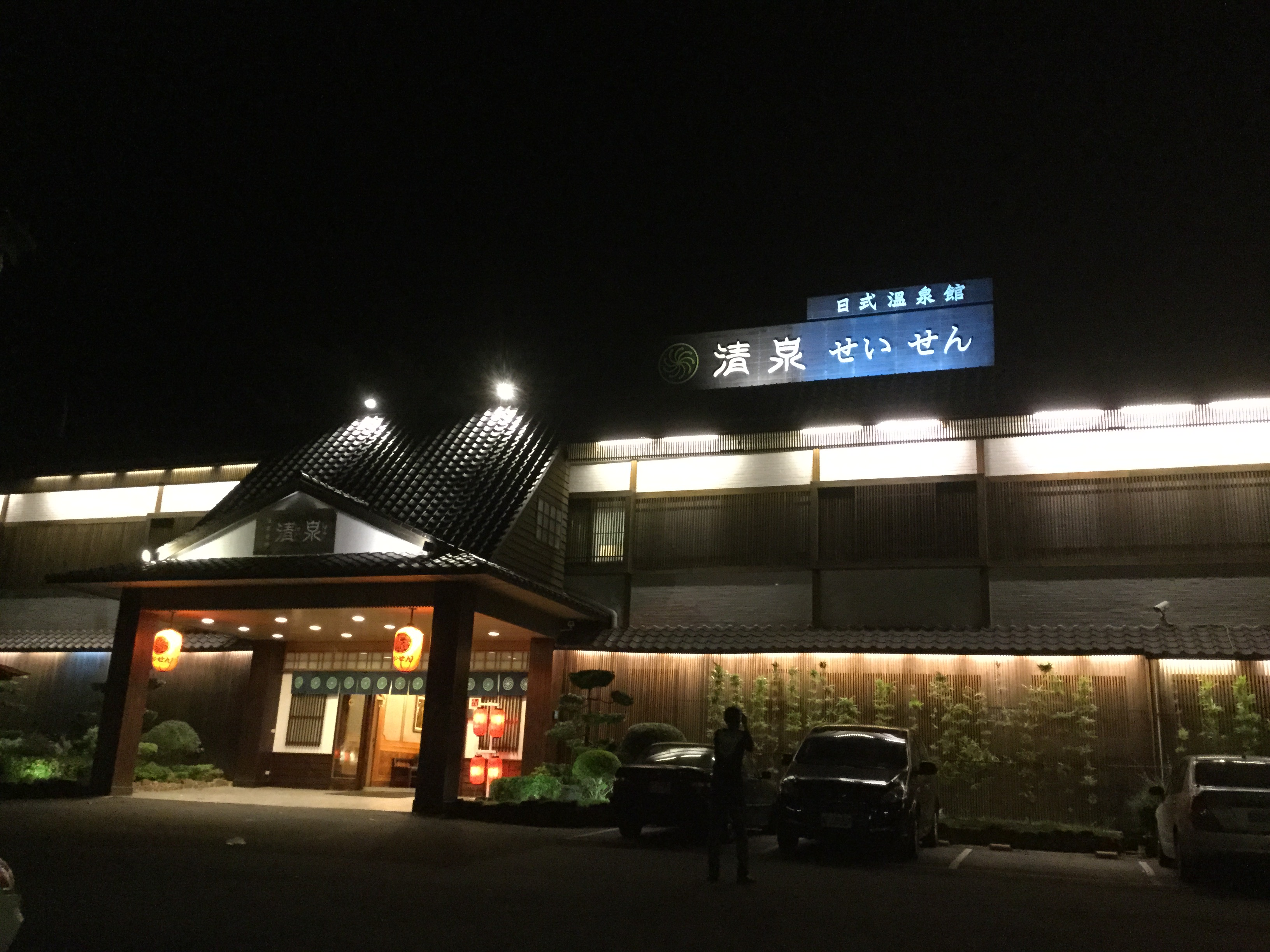 Qingquan Hot Spring Hotel